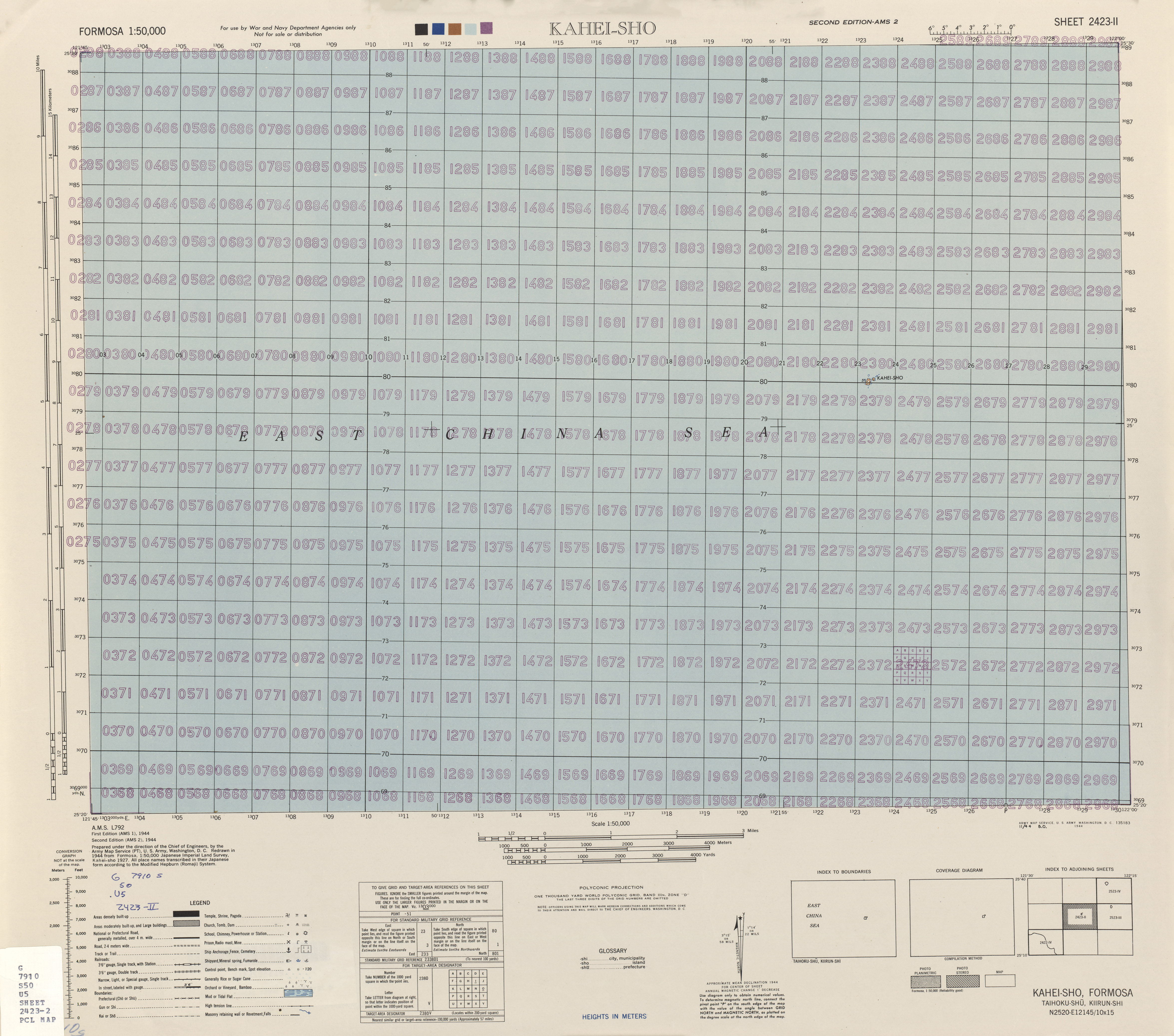 Map of Huaping Islet (Kahei-sho), Zhongzheng, Keelung, Taiwan from Formosa (Taiwan) 1:50,000 AMS Series L792